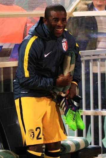 Rio Mavuba